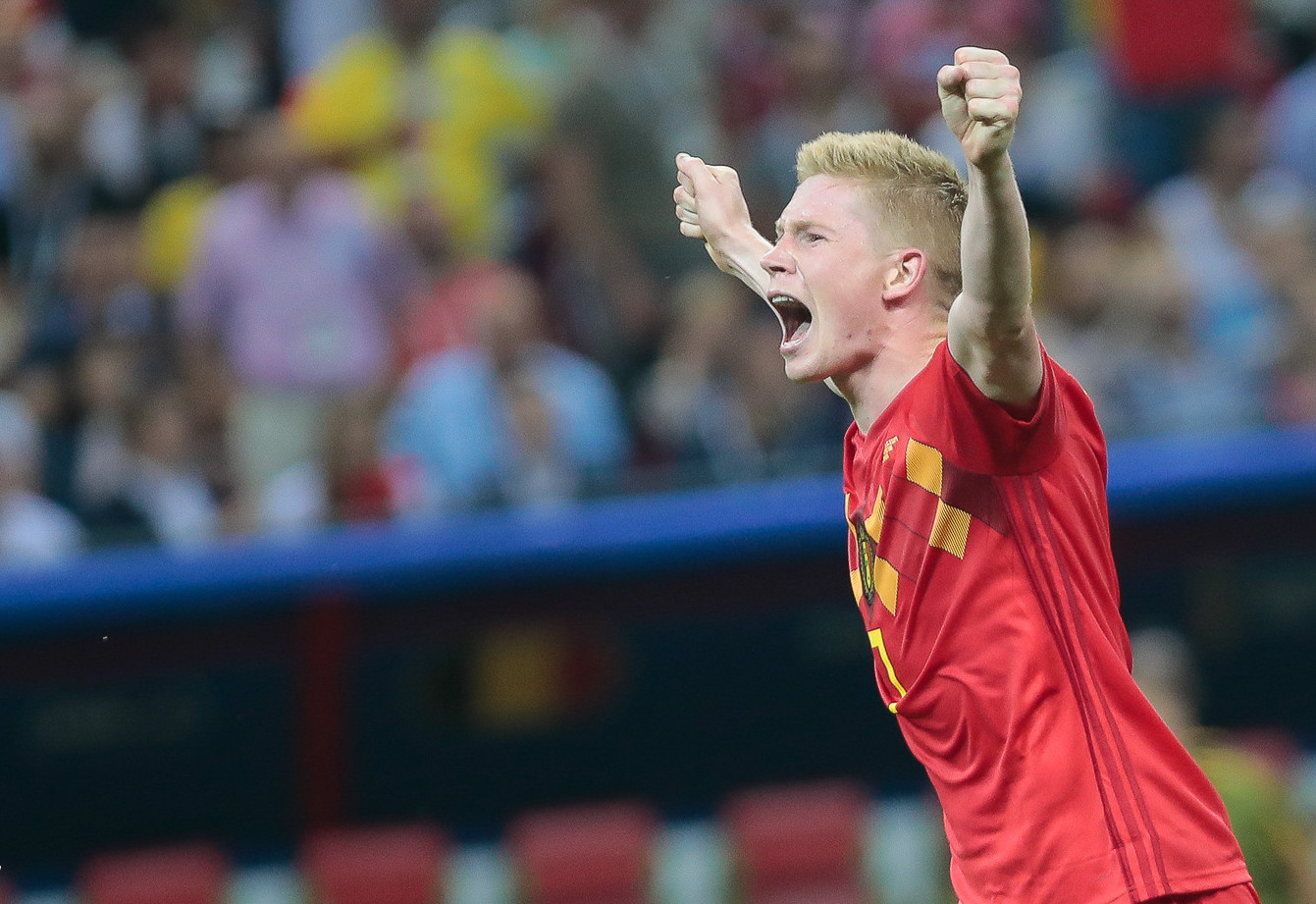 Kevin De Bruyne celebrating Belgium's 2–1 win over Brazil.